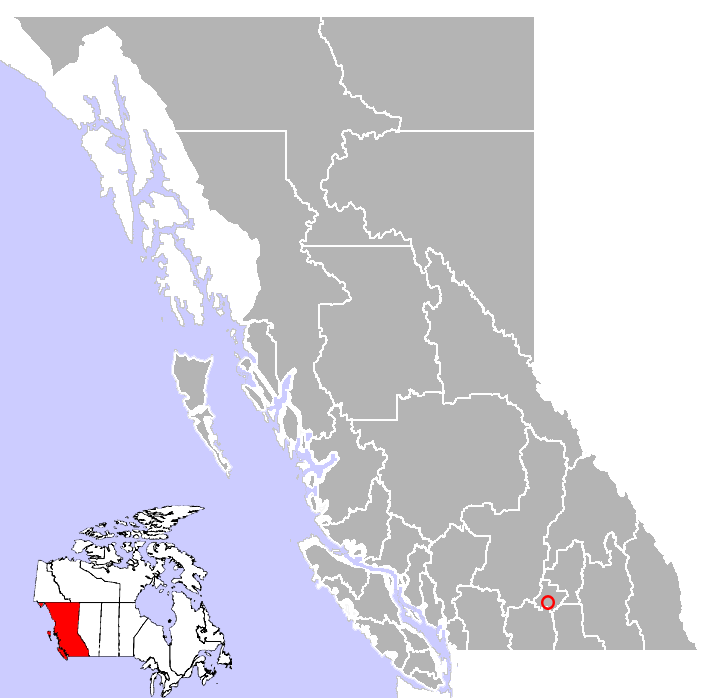 Westbank, British Columbia location.